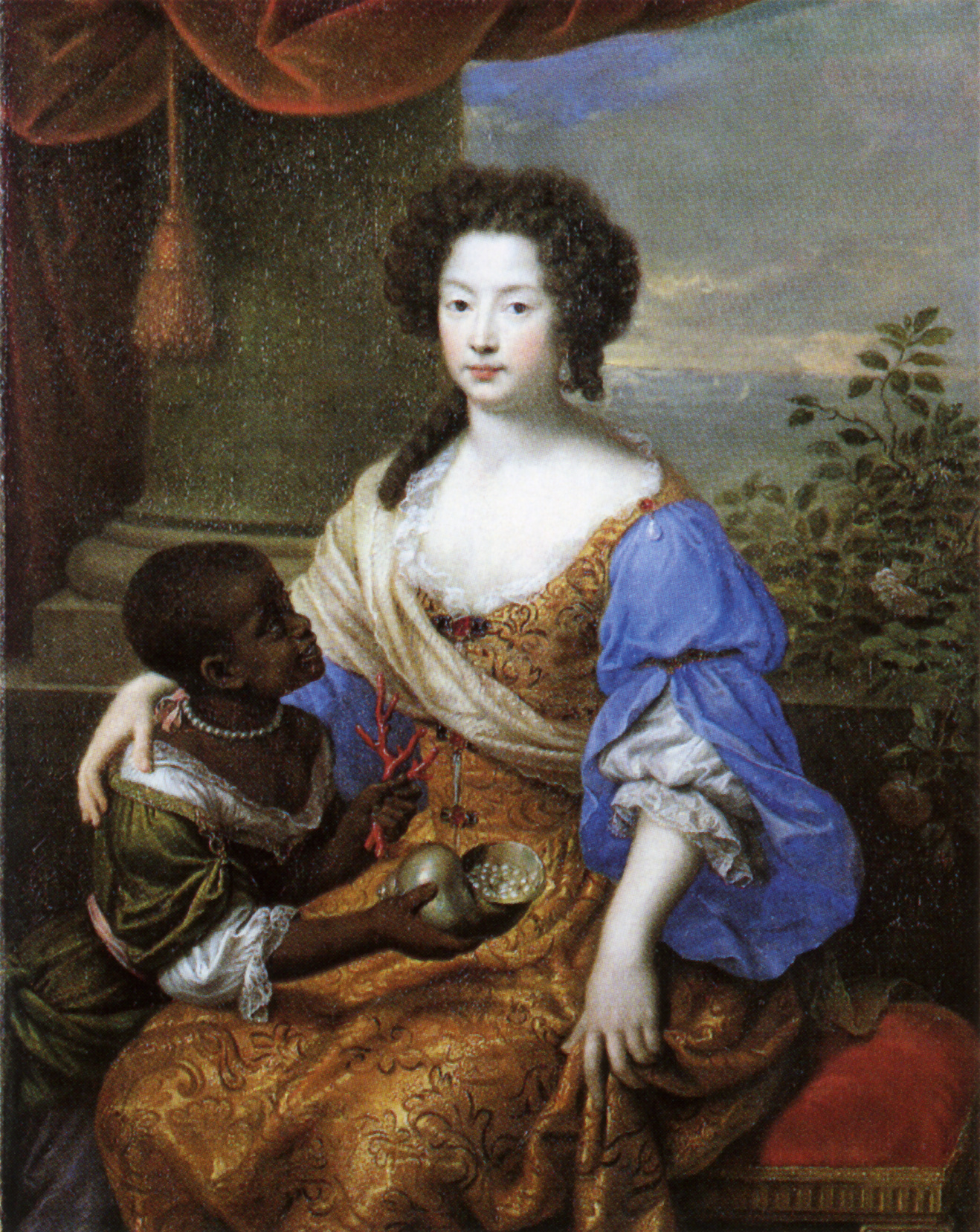 This image is a JPEG version of the original PNG image at File: Louise de Kéroualle by Pierre Mignard.png. Generally, this JPEG version should be used when displaying the file from Commons, in order to reduce the file size of thumbnail images. However, any edits to the image should be based on the original PNG version in order to prevent generation loss, and both versions should be updated. Do not make edits based on this version. See here for more information. Louise de Keroual, Duchess of Portsmouth, by Pierre Mignard, 1682. National Portrait Gallery: NPG 497 While Commons policy accepts the use of this media, one or more third parties have made copyright claims against Wikimedia Commons in relation to the work from which this is sourced or a purely mechanical reproduction thereof. This may be due to recognition of the "sweat of the brow" doctrine, allowing works to be eligible for protection through skill and labour, and not purely by originality as is the case in the United States (where this website is hosted). These claims may or may not be valid in all jurisdictions. As such, use of this image in the jurisdiction of the claimant or other countries may be regarded as copyright infringement. Please see Commons:When to use the PD-Art tag for more information.See User:Dcoetzee/NPG legal threat for original threat and National Portrait Gallery and Wikimedia Foundation copyright dispute for more information. This tag does not indicate the copyright status of the attached work. A normal copyright tag is still required. See Commons:Licensing.